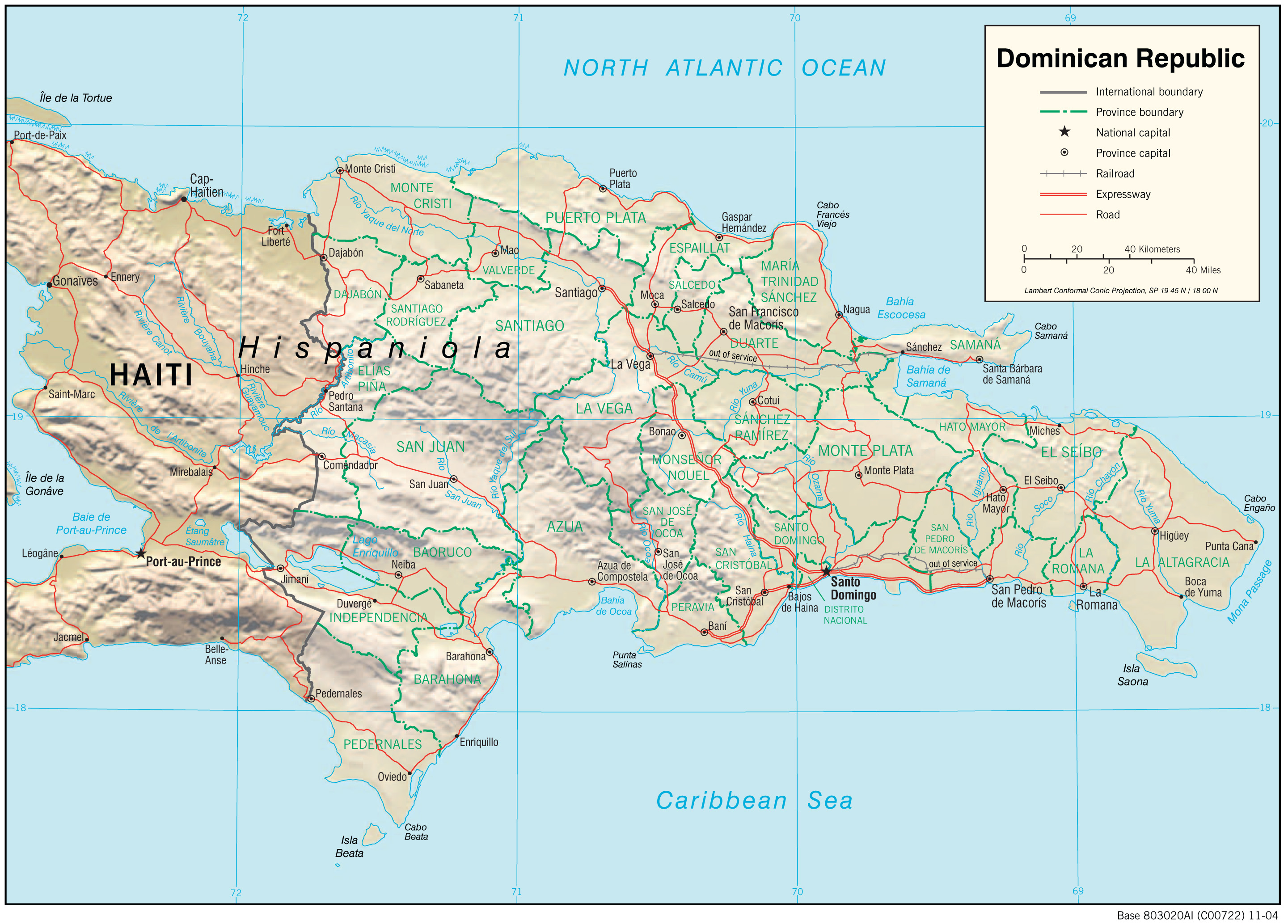 Topographic map of the Dominican Republic (shaded relief), 2004.